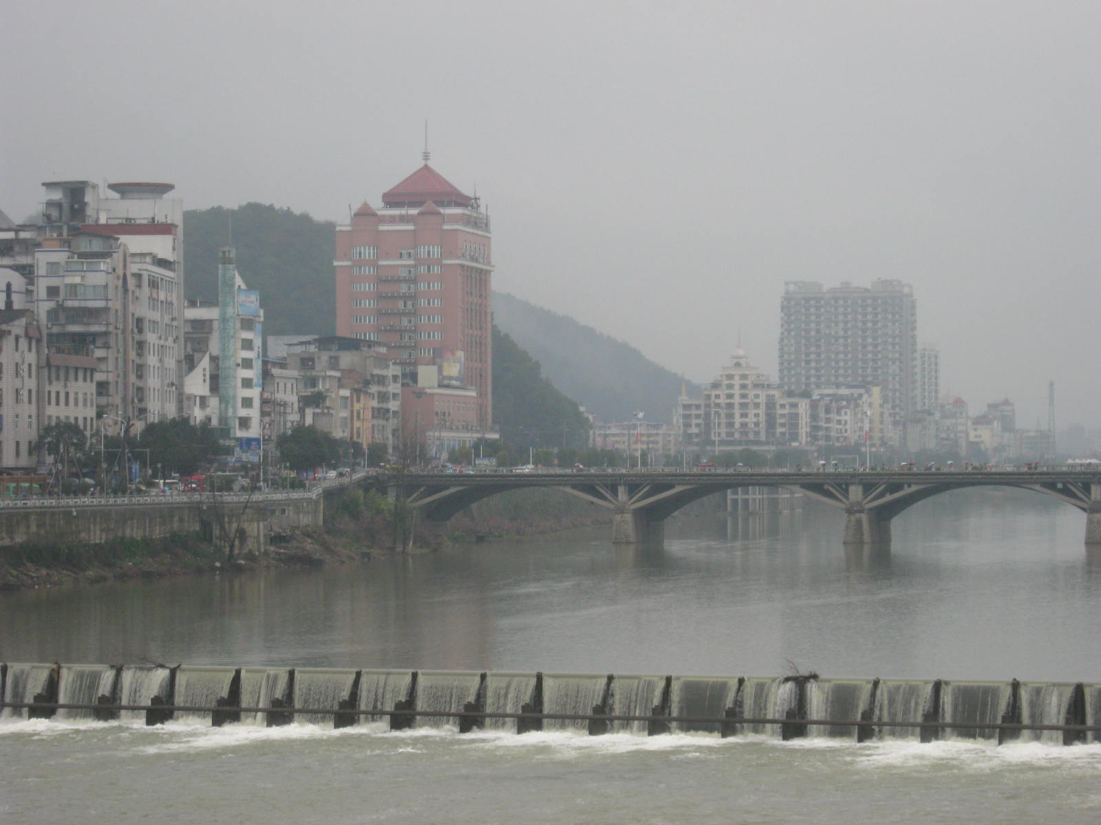 ShuiDong bridge (水东大桥) over ChongYang River (崇阳溪).